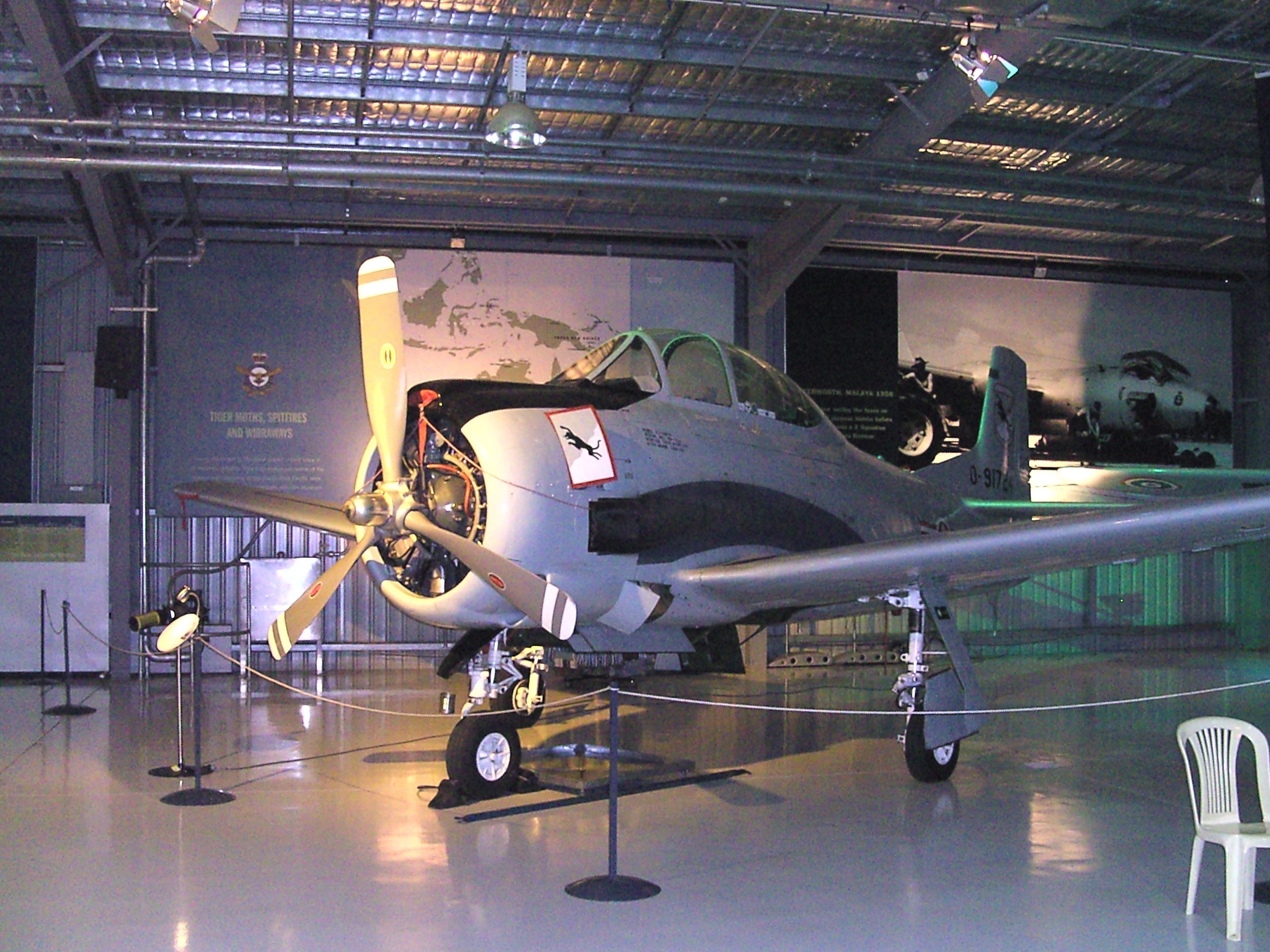 T-28 Trojan model D (COIN) (Temora Aviation Museum)